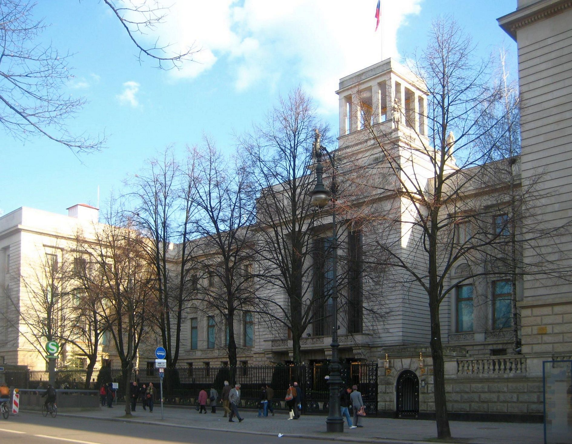 The Russian Embassy, Unter den Linden 55-65, in Berlin-Mitte. The monumental complex was built from 1949 to 1951. It has been designated as a historic landmark.